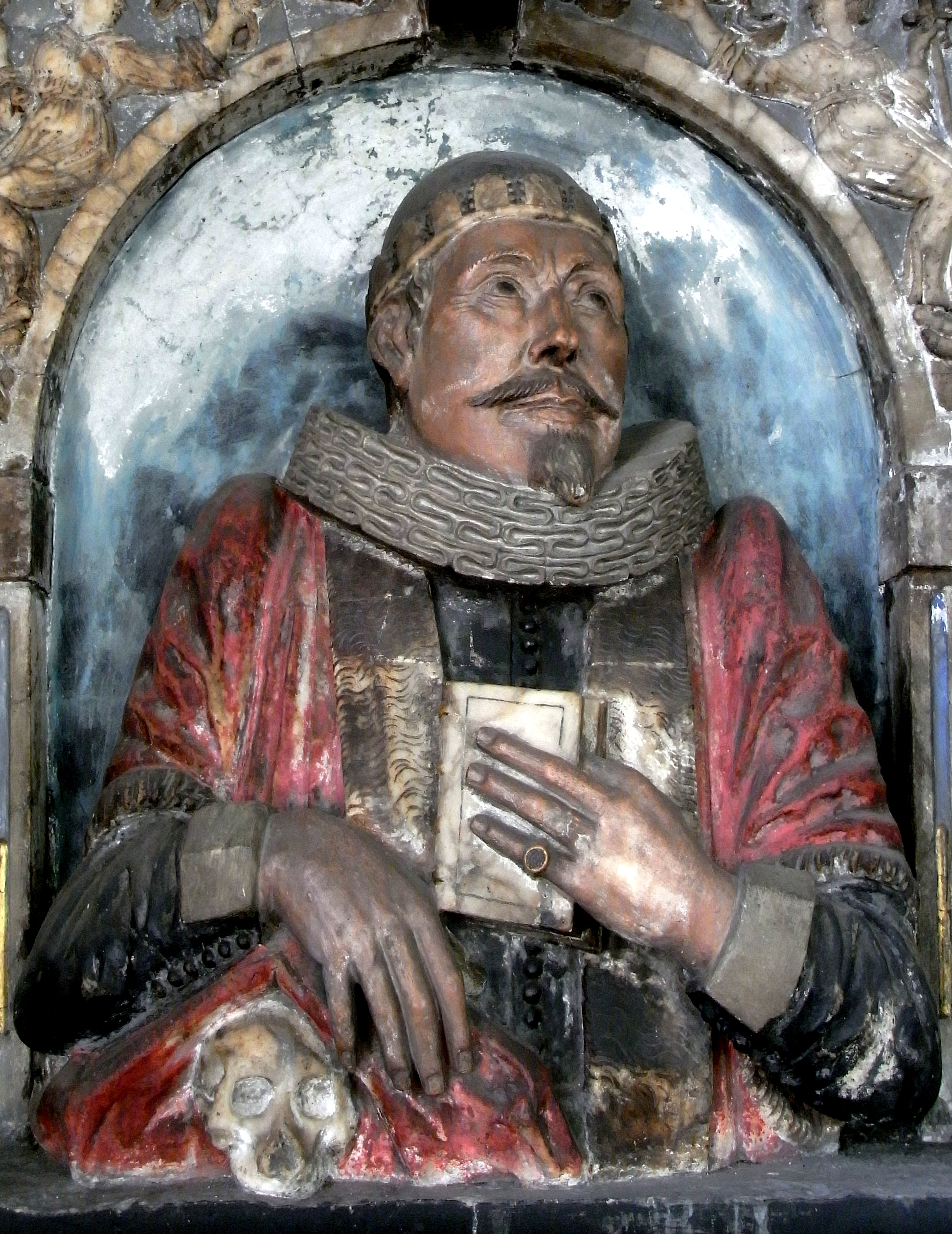 Richard Beaple (1564-1643) of Barnstaple, Devon, a wealthy merchant, ship owner and member of the Spanish Company, thrice Mayor of Barnstaple, in 1607, 1621 and 1635. Detail from his mural monument in St Peter's Church, Barnstaple